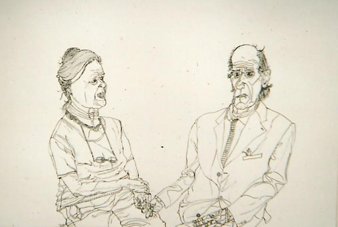 Portraits of Ernst and Isolde Hiesmayr, geb. Moosbrugger